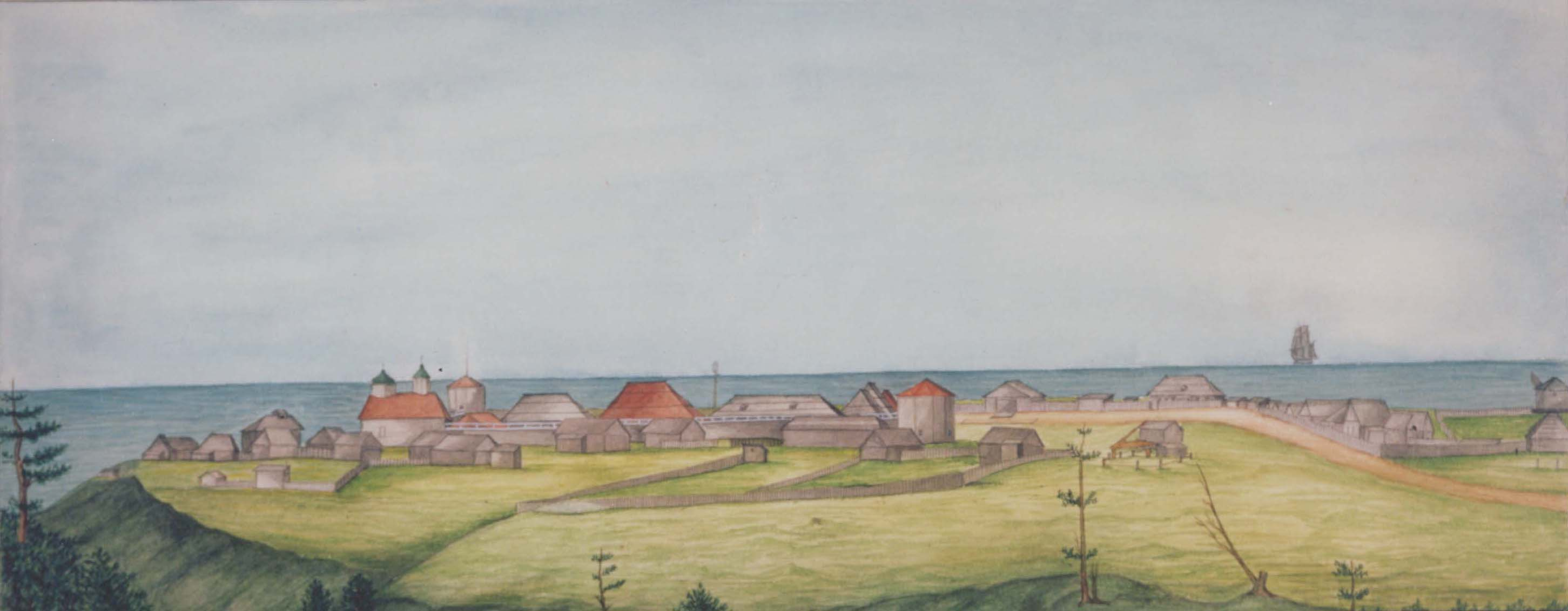 Water-colour image of Settlement (Fort) Ross painted in 1841 by I.G. Voznesenskii. Fort Ross, California